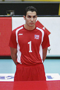 José Rivera (1) at the FIVB Volleyball Championships at Japan 2006